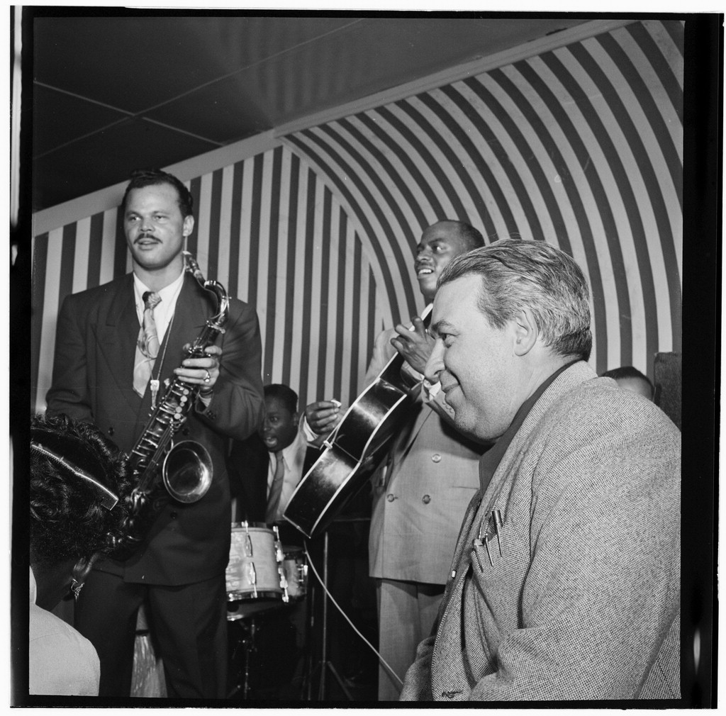 Gottlieb, William P., 1917-, photographer. [Portrait of Hugues Panassié and Tiny Grimes, New York, N.Y., between 1946 and 1948] 1 negative : b&w ; 2 1/4 x 2 1/4 in. Notes: Gottlieb Collection Assignment No. 537 Reference print available in Music Division, Library of Congress. Purchase William P. Gottlieb Forms part of: William P. Gottlieb Collection (Library of Congress). Subjects: Panassié, Hugues Grimes, Tiny, 1917- Jazz musicians--1940-1950. Music critics--1940-1950. Guitarists--1940-1950. Saxophonists--1940-1950. Format: Portrait photographs--1940-1950. Cityscape photographs--1940-1950. Film negatives--1940-1950. Rights Info: Mr. Gottlieb has dedicated these works to the public domain, but rights of privacy and publicity may apply. Repository: (negative) Library of Congress, Prints & Photographs Division, Washington D.C. 20540 USA, (reference print) Library of Congress, Music Division, Washington D.C. 20540 USA, Part Of: William P. Gottlieb Collection (DLC) 99-401005 General information about the Gottlieb Collection is available at Persistent URL: Call Number: LC-GLB23- 0673 This work is from the William P. Gottlieb collection at the Library of Congress. Rights and restrictions.In accordance with the wishes of William Gottlieb, the photographs in this collection entered into the public domain on February 16, 2010.